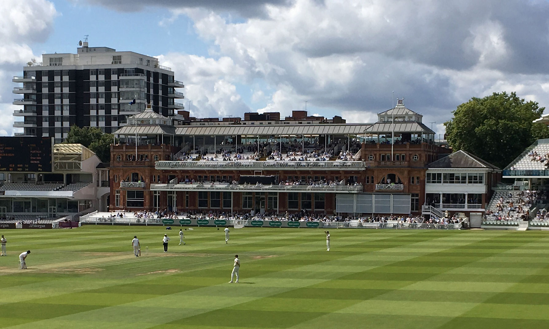 The Pavilion at Lord's Cricket ground, 6 August 2017